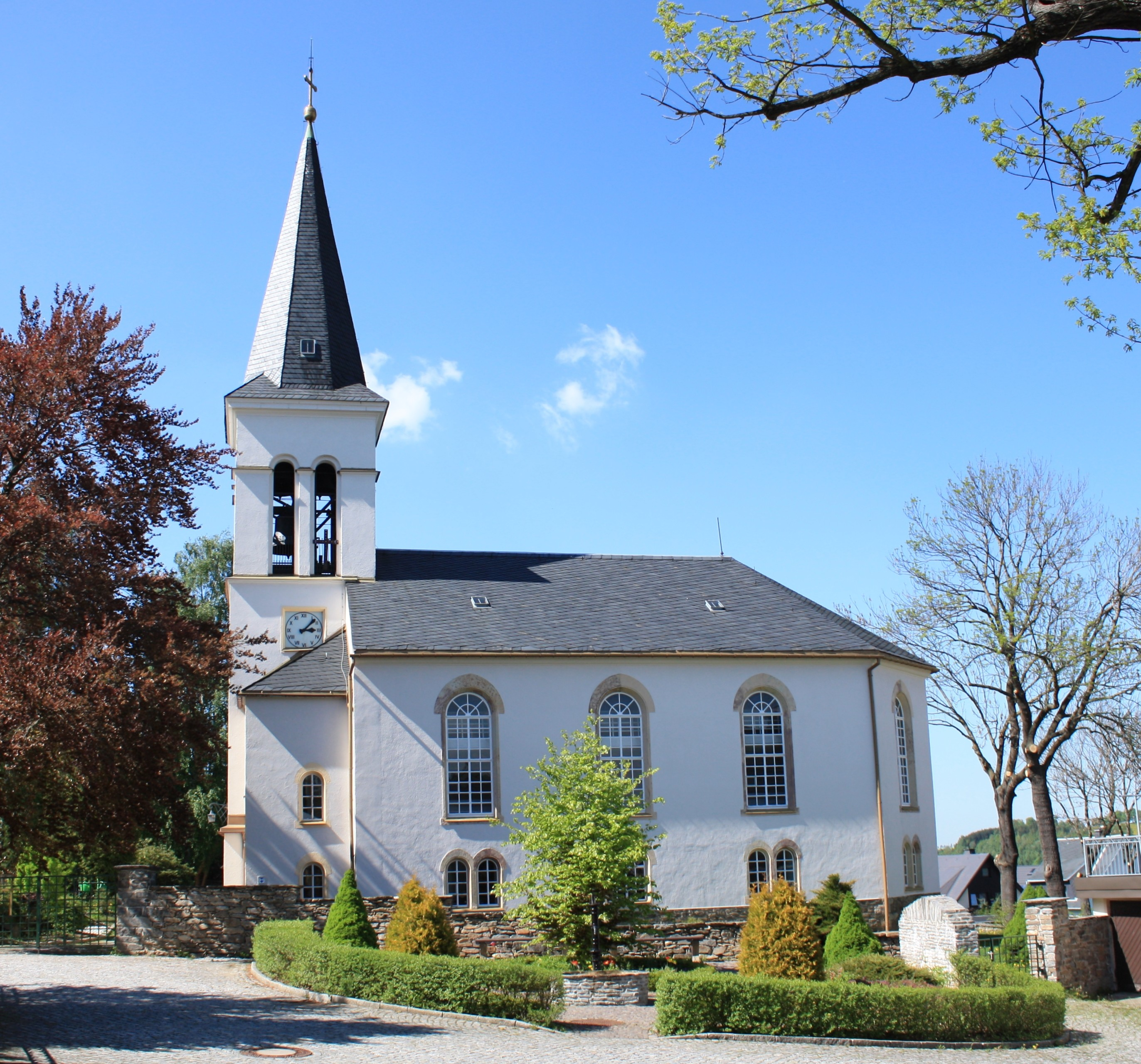 Geyersdorf Church